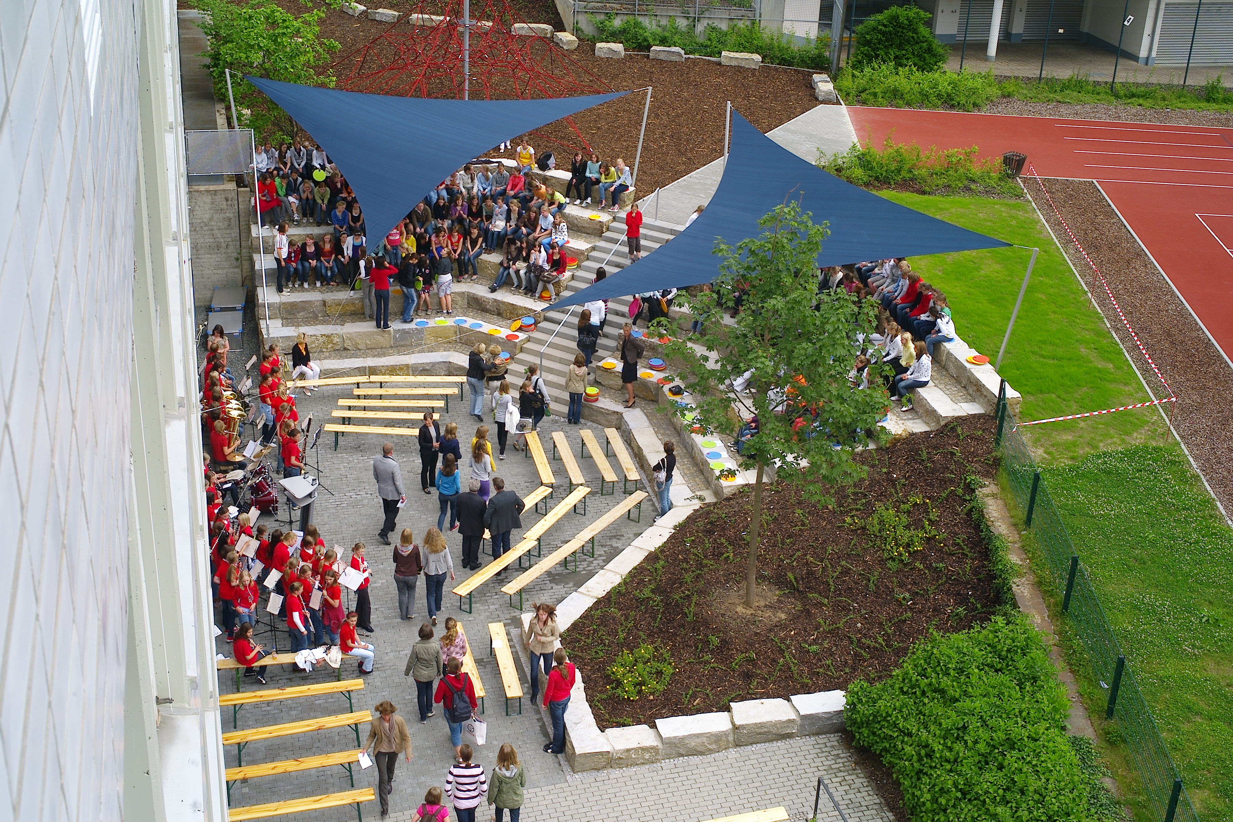 St. Angela-School Koenigstein im Taunus / Germany